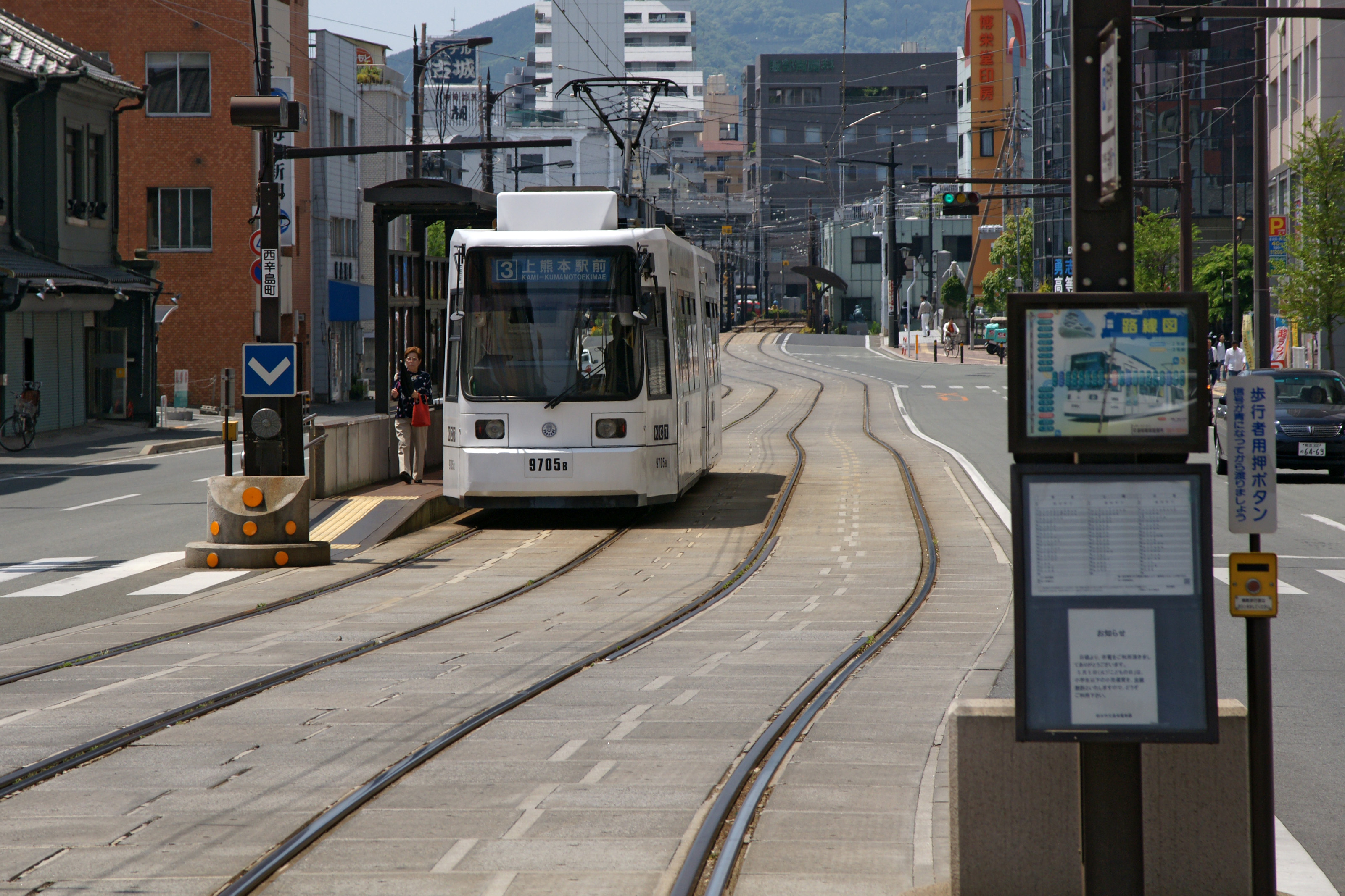 Nishikarashimacho Station, Kumamoto, Kumamoto prefecture, Japan